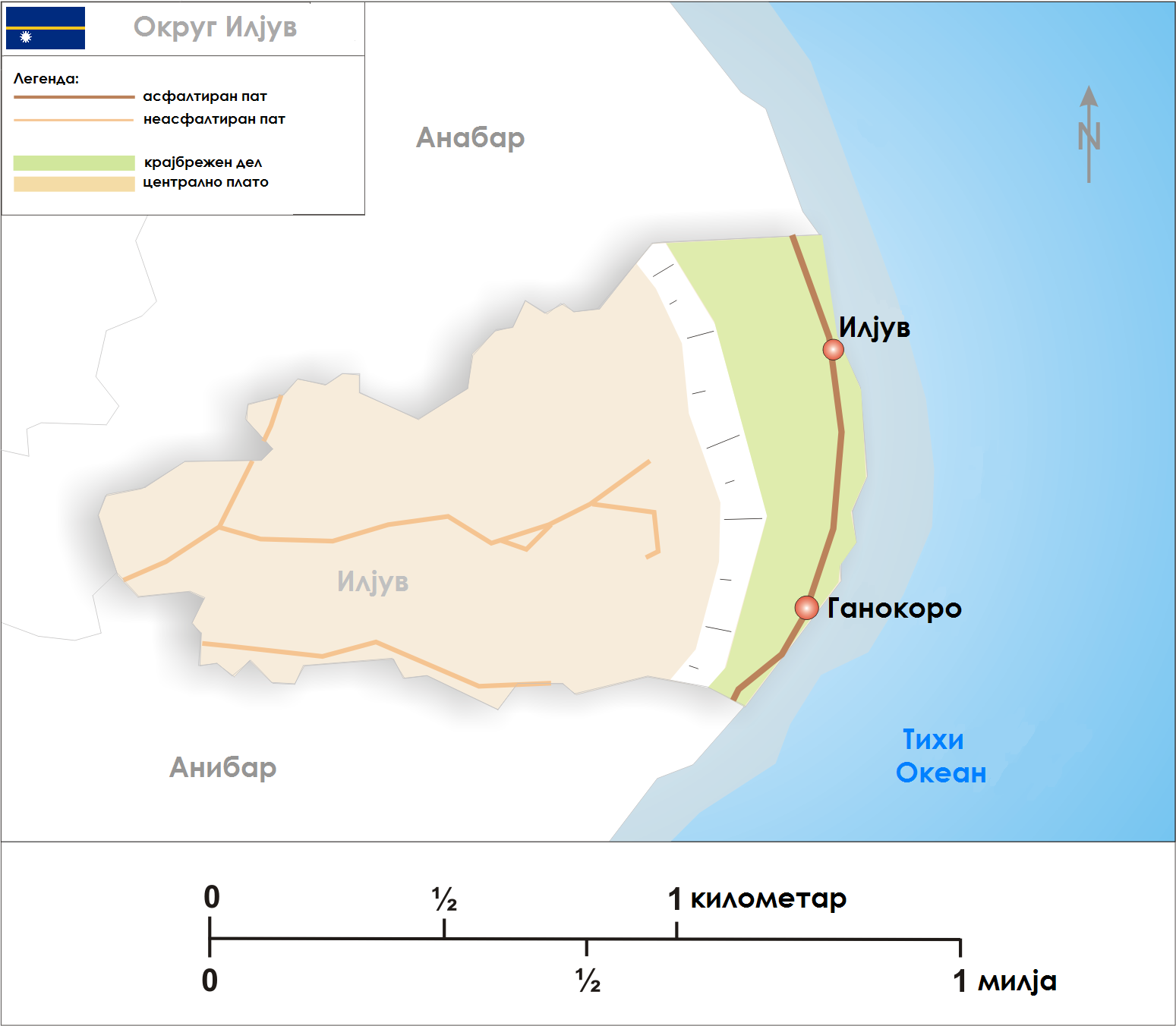 Map of Ijuw district in Nauru on Macedonian.